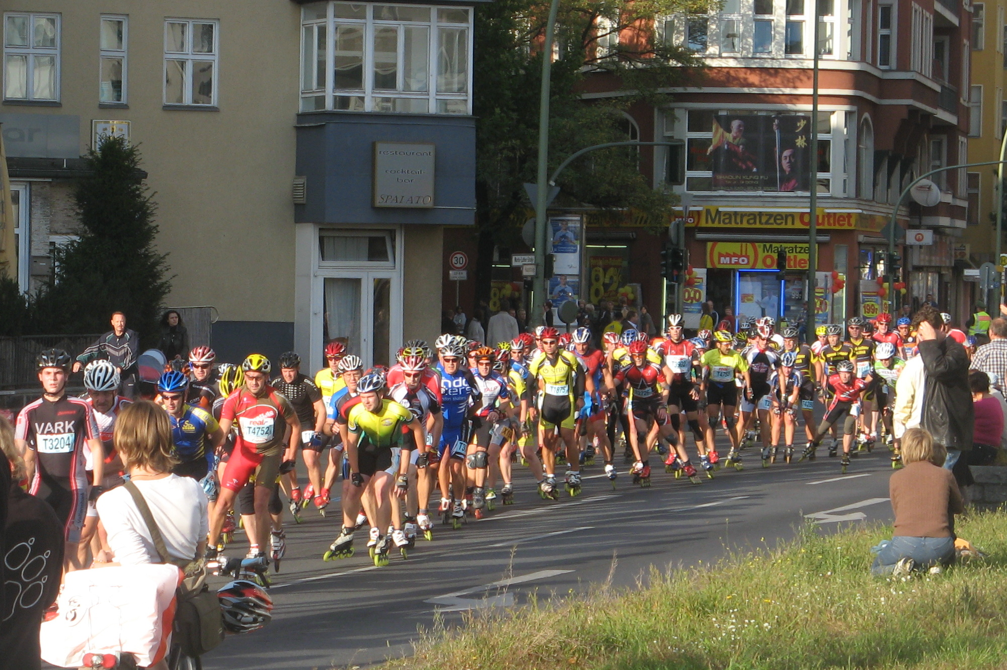 Berlin Inline-Marathon 2009